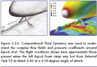 Computational Fluid Dynamics of STS-107 when the left foam bipod ramp was lost